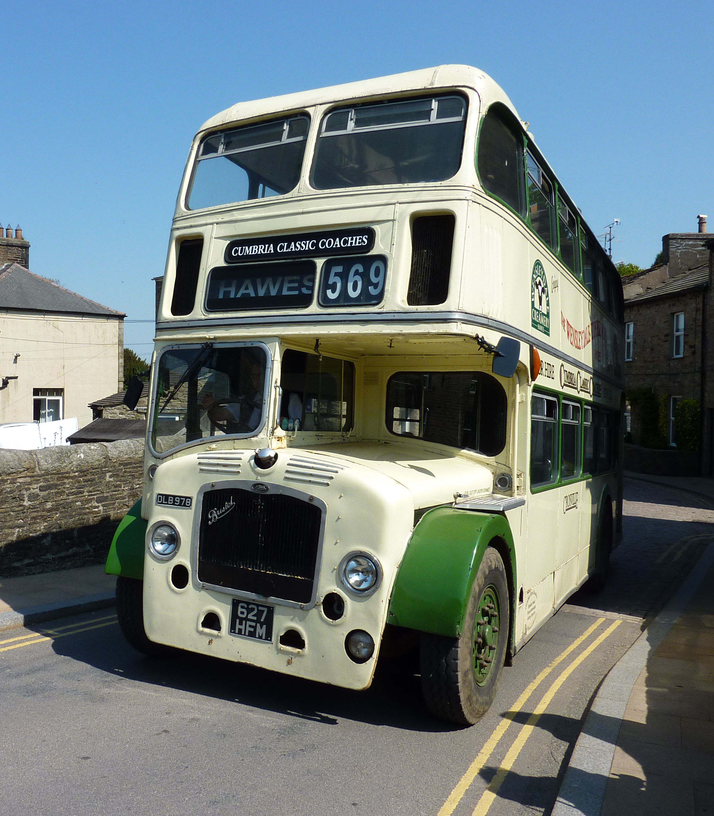 1959 Bristol Lodekka LD6B belonging to Cumbria Coaches. Photographed in Hawes, Yorkshire